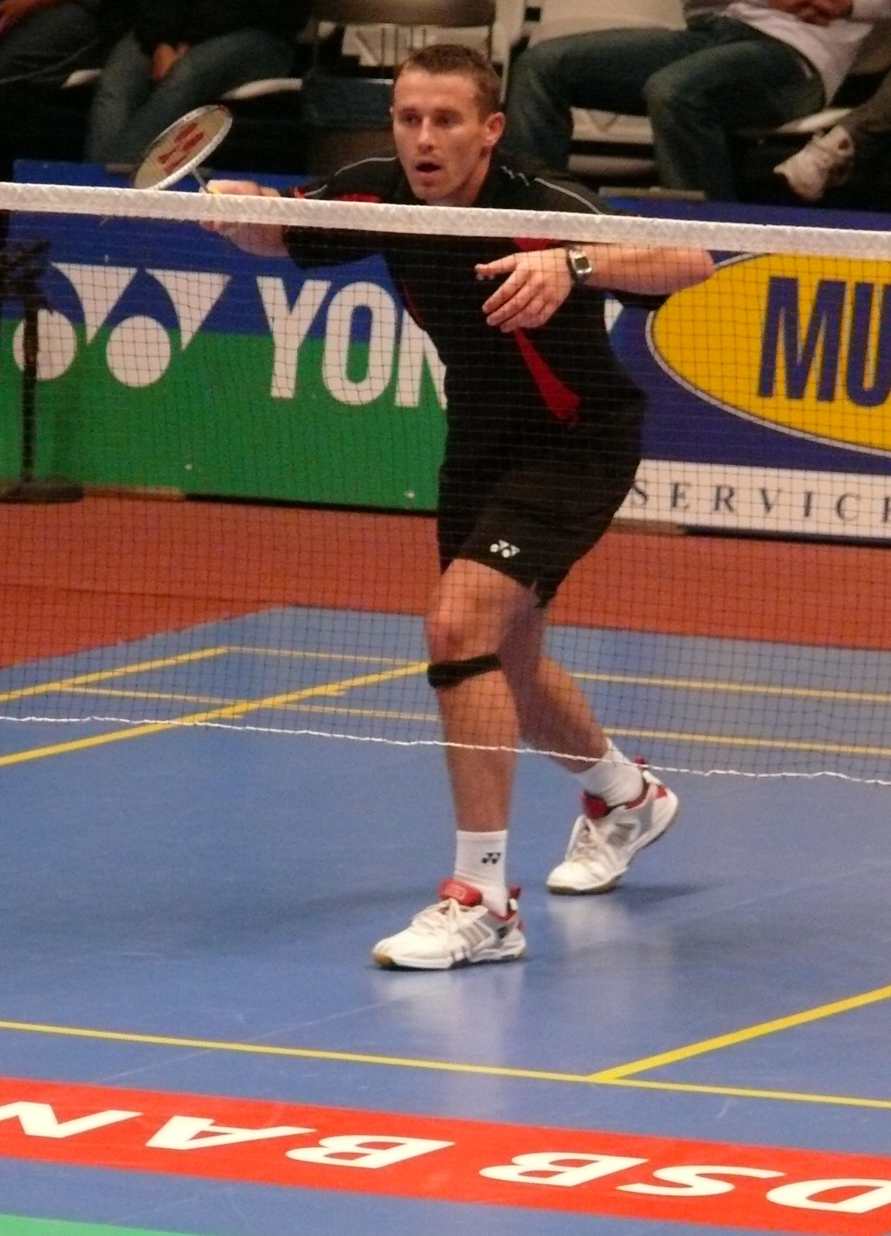 Przemysław Wacha (Poland)